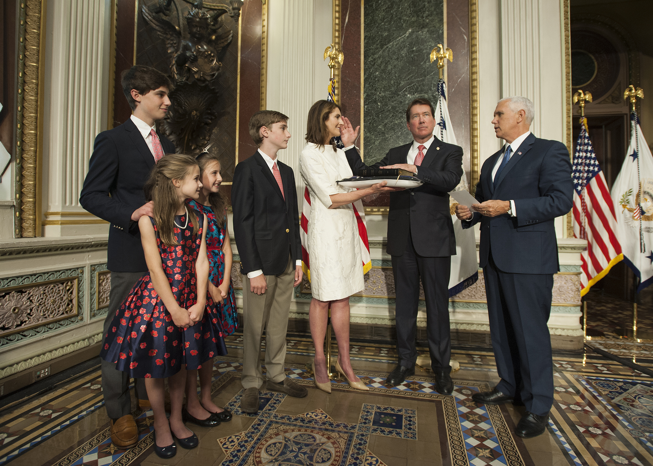 Vice President Mike Pence swears in Bill Hagerty as the new U.S. Ambassador to Japan at a ceremony at the Eisenhower Executive Office Building in Washington, D.C., on July 27, 2017. [State Department photo/ Public Domain]